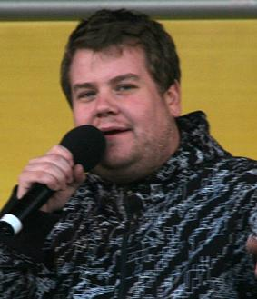 James Corden at a BBC Radio Wales roadshow.